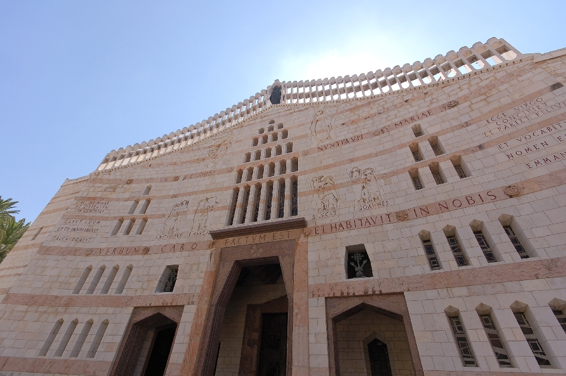 Impressions Wikimania 2011 Haifa